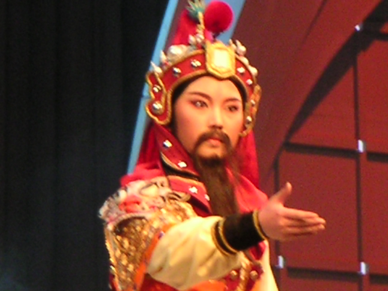 Shaoxing opera actress Cai Yan (蔡燕) as Han Shizhong